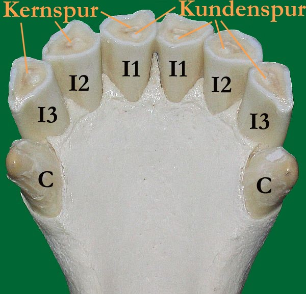 Incisivi of lower jaw of a about 16-20 years old horse. "Kundenspur"=star, "Kernspur"=dental cavity filled with secondary dentine.